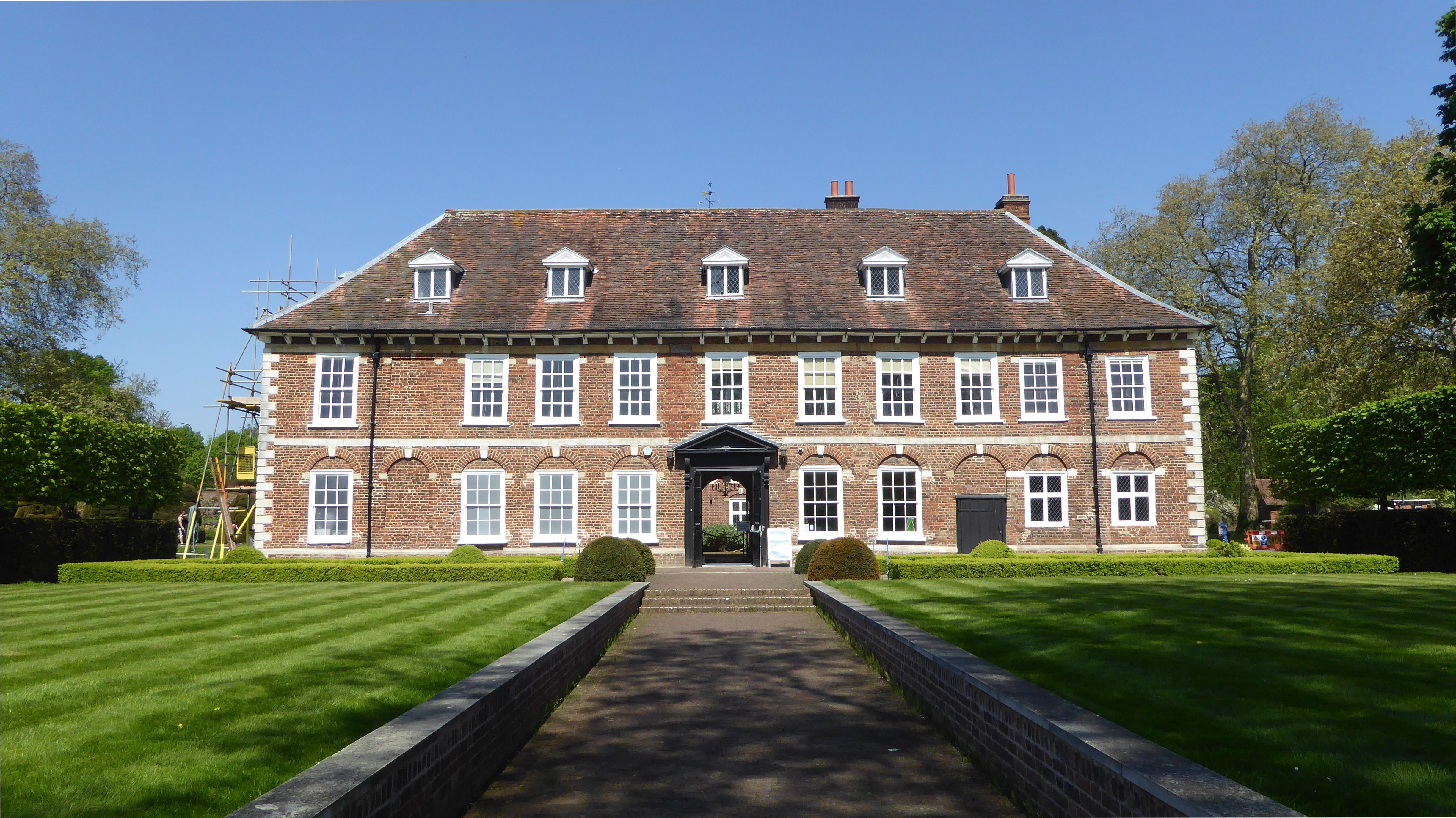 The southern face of Hall Place in the London Borough of Bexley.